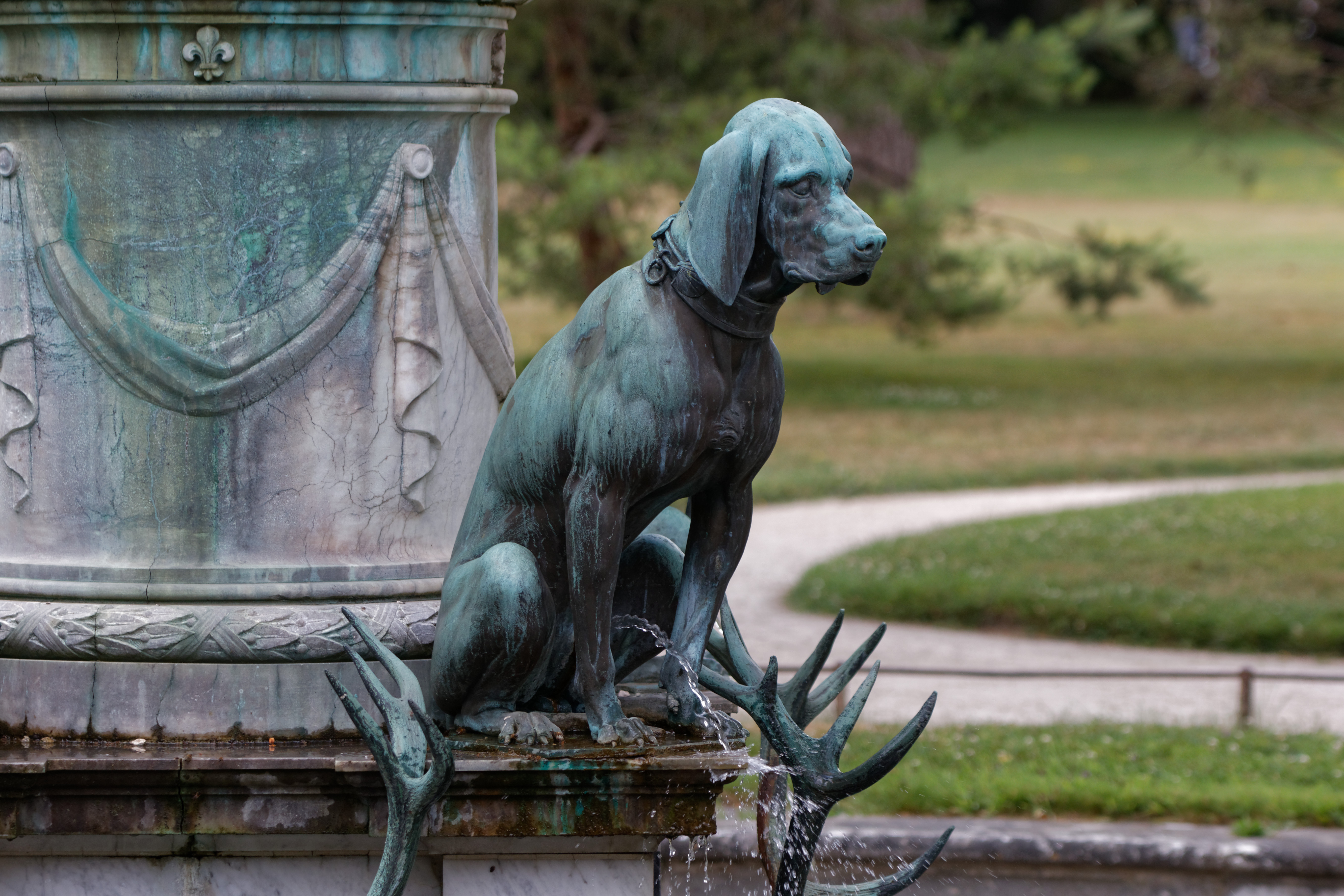 In 1603. while the creation of the elevation fountain Francini add seated dogs and deer serving as griffins, created by the engraver and sculptor Pierre Biart .